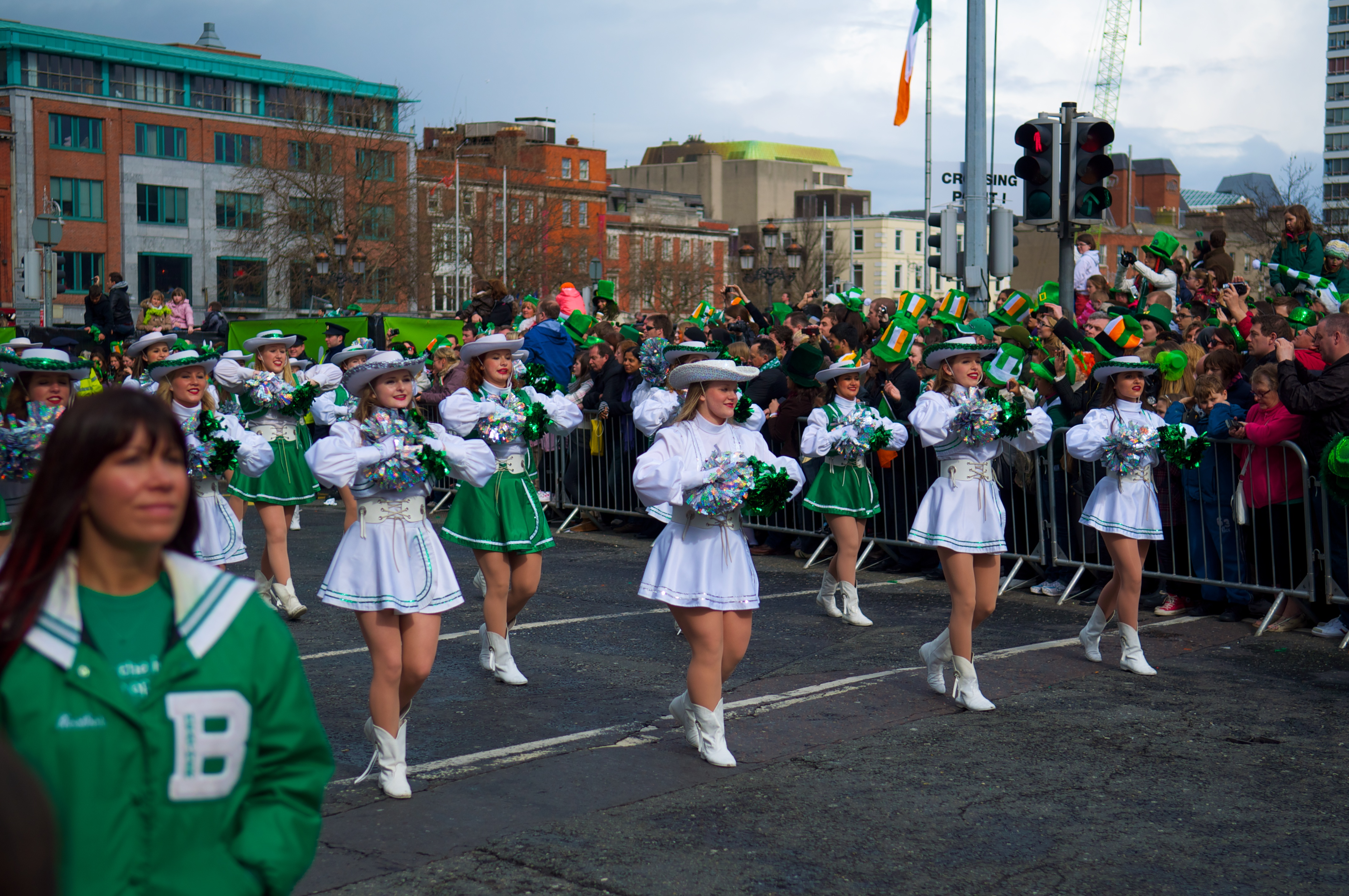 St. Patrick's Festival, Dublin